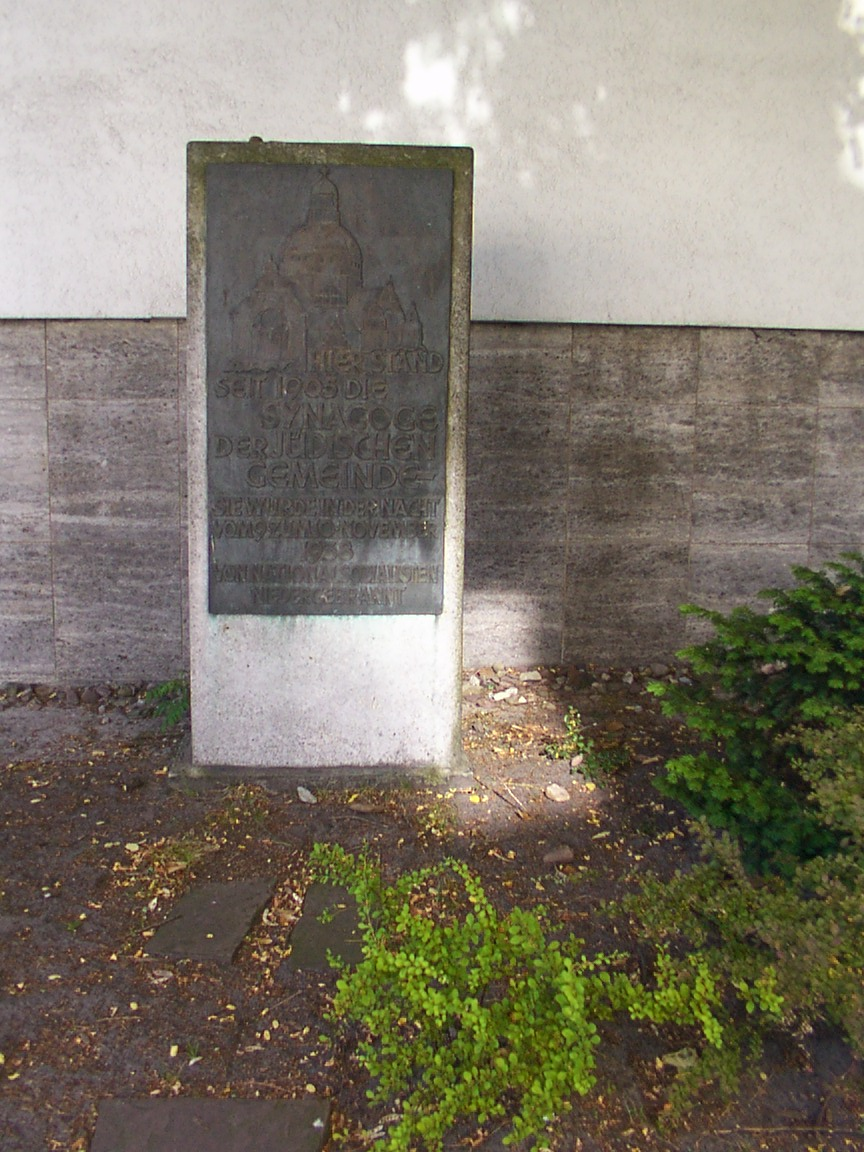 Bielefeld: Memorial old synagogue (Turnerstr.)